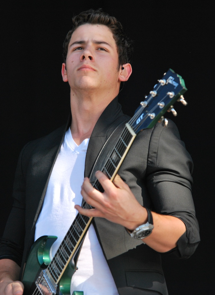 Nick Jonas at the 2011 Cisco Ottawa Bluesfest. By: Brennan Schnell